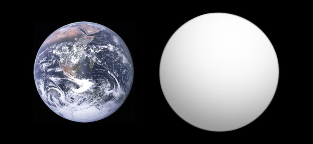 Comparison of best-fit size of the exoplanet Kepler-78b with the Solar System planet Earth, as reported in the Open Exoplanet Catalogue[1] as of 2014-04-20. ↑ Open Exoplanet Catalogue (2010-09-30). Retrieved on 2010-09-30.